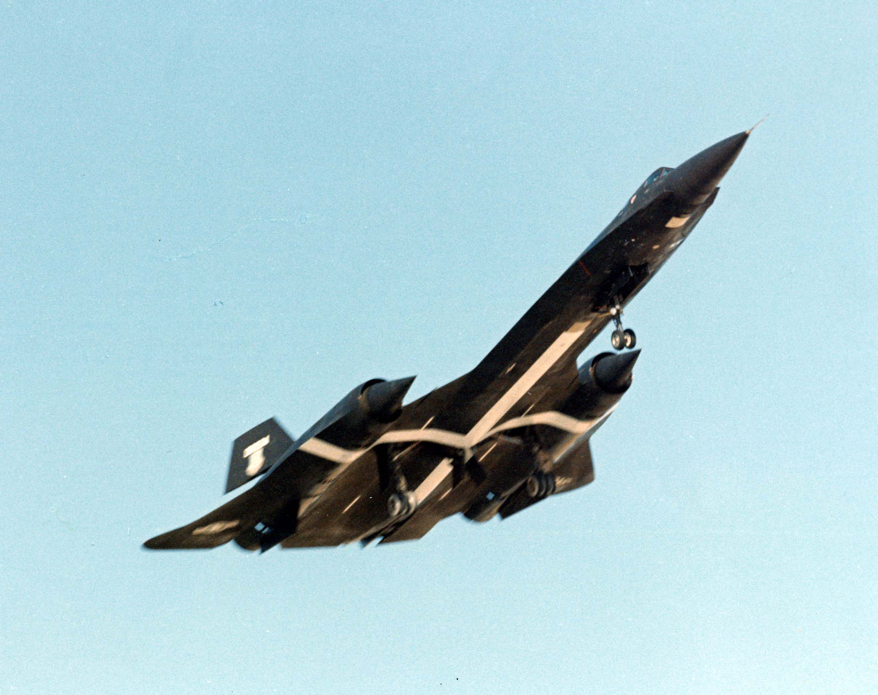 Lockheed YF-12 (S/N 60-6936) takeoff. (U.S. Air Force photo)